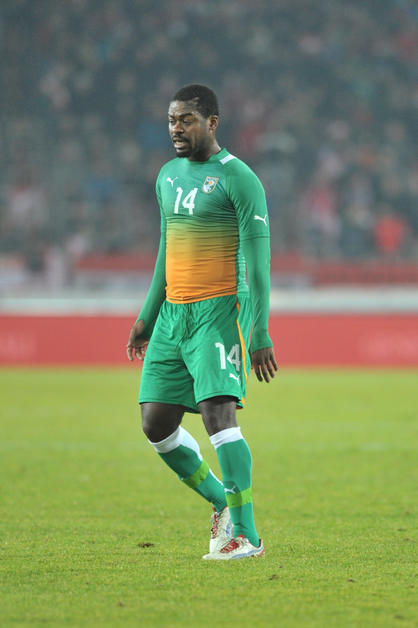 ÖFB freundschaftliches Länderspiel - Österreich vs Elfenbeinküste am 14. November 2012 The making of this work was supported by Wikimedia Austria. For other files made with the support of Wikimedia Austria, please see the category Supported by Wikimedia Österreich. Elfenbeinküste Nr. 14: Romaric